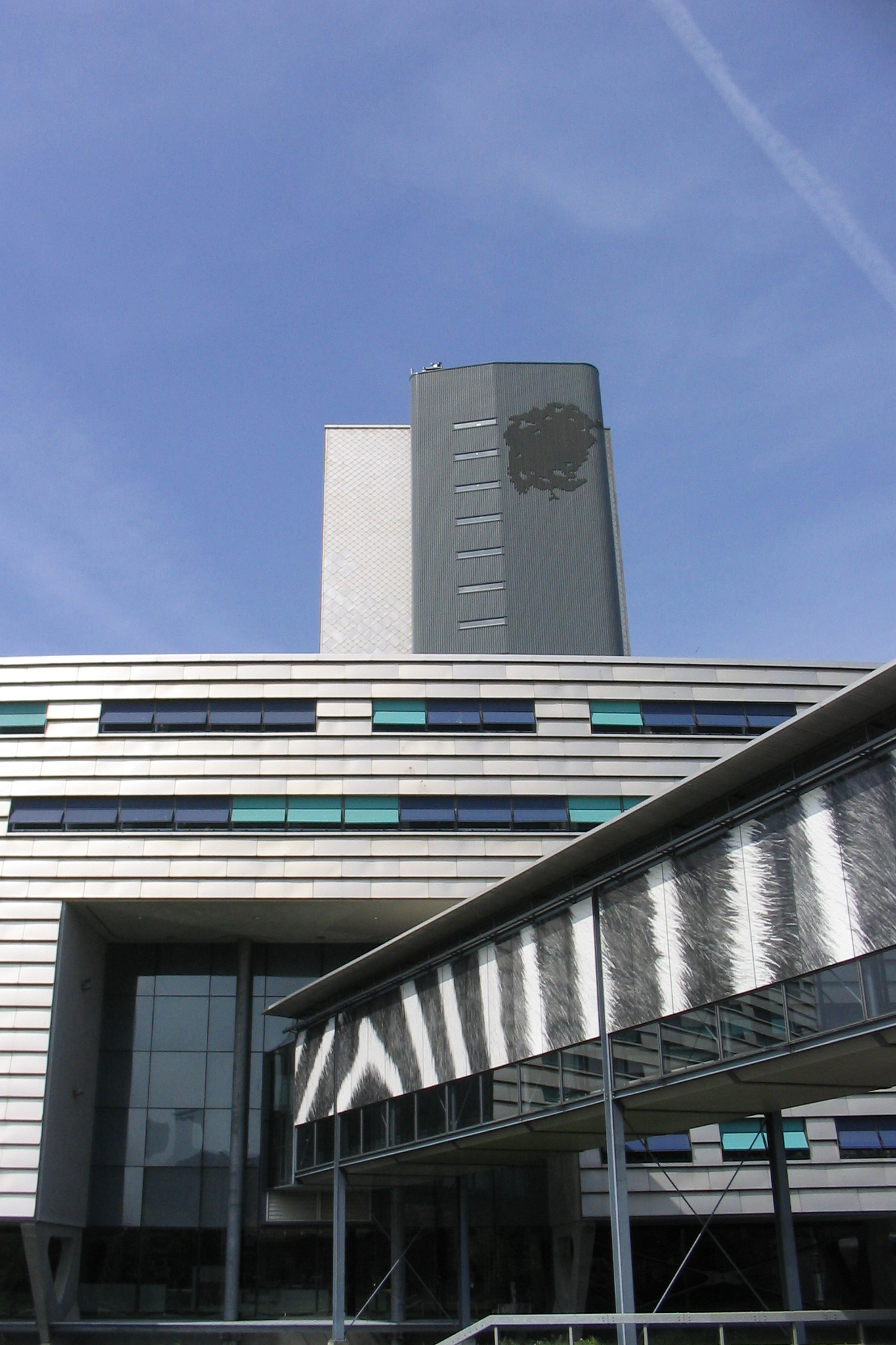 Natural history museum Naturalis, Leiden. Exterior museum building with footbridge, collection tower with artwork Lust for Life by Giny Vos, 1999.